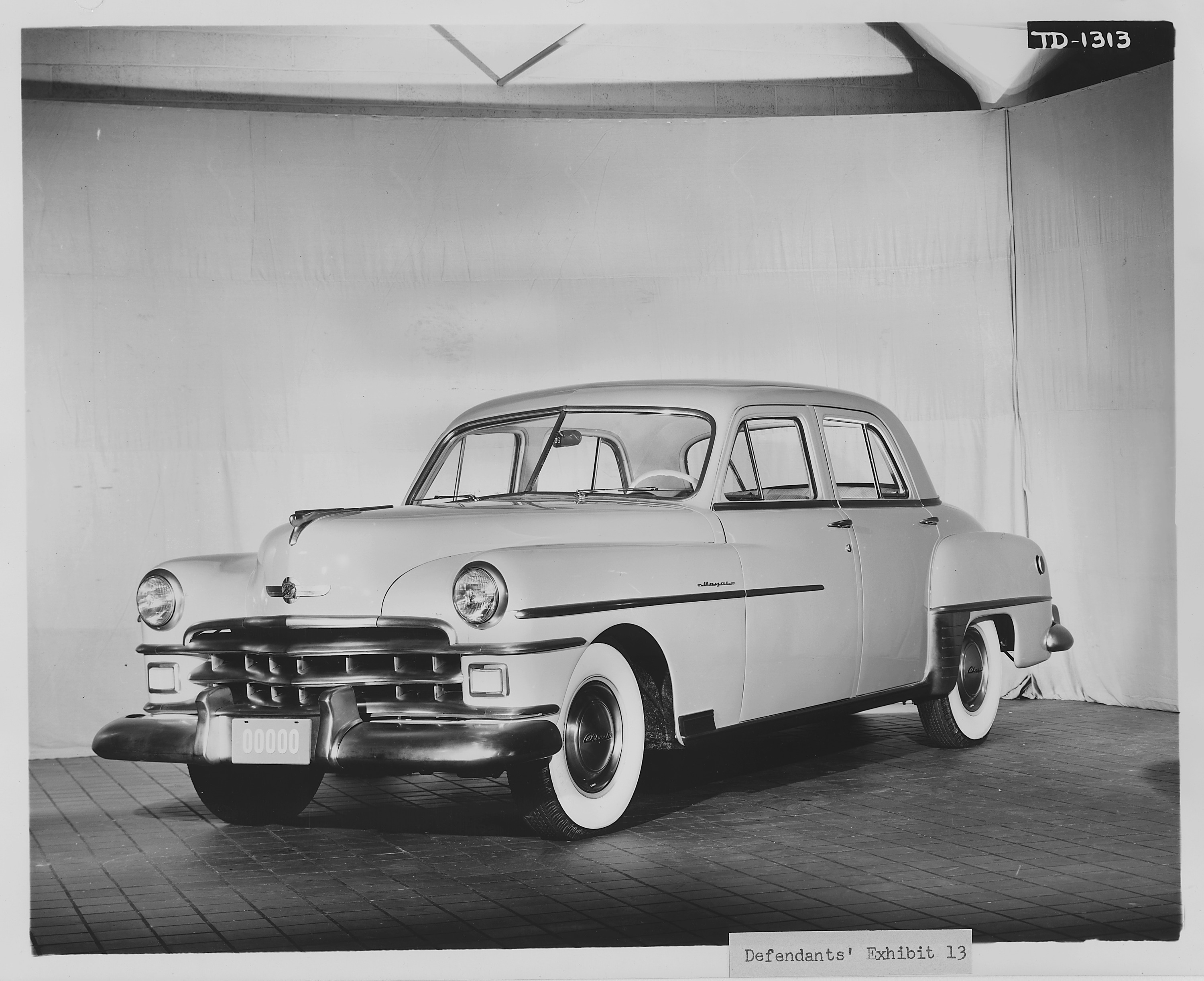 Scope and content: Photographs of new vehicles taken from a variety of perspectives. There are occasional close-ups of grilles.